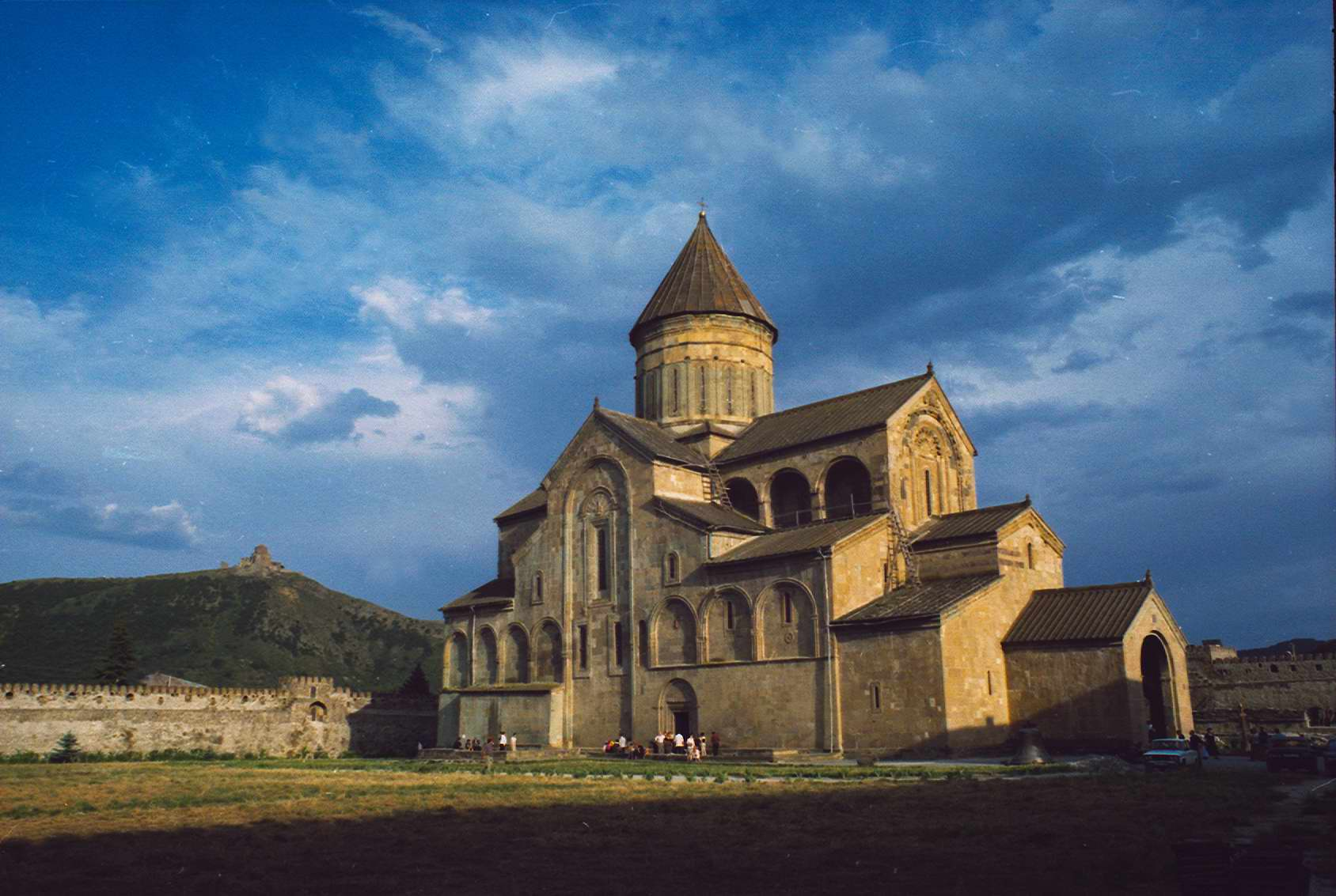 The picture belongs to me personally